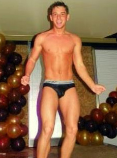 Brent Corrigan at Meteor Club in Houston, Texas.